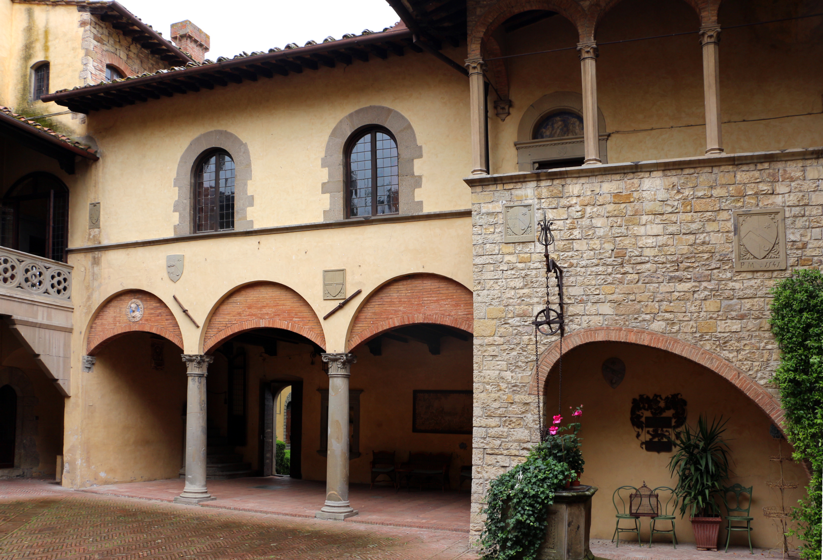 Castello Il Palagio (San Casciano in Val di Pesa)